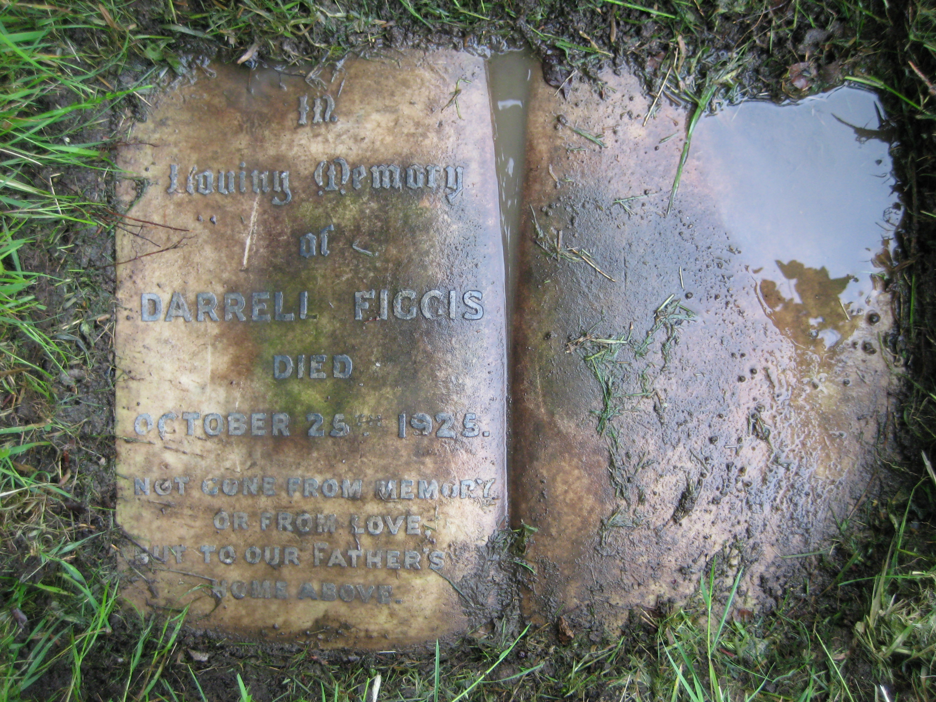 Headstone of Darrell Figgis,(Irish writer and politician), rediscovered under several inches of soil in West Hampstead Cemetery, London. Date of Death miss-recorded on stone. Should read Died October 27th, 1925. Photograph taken in May 2008.